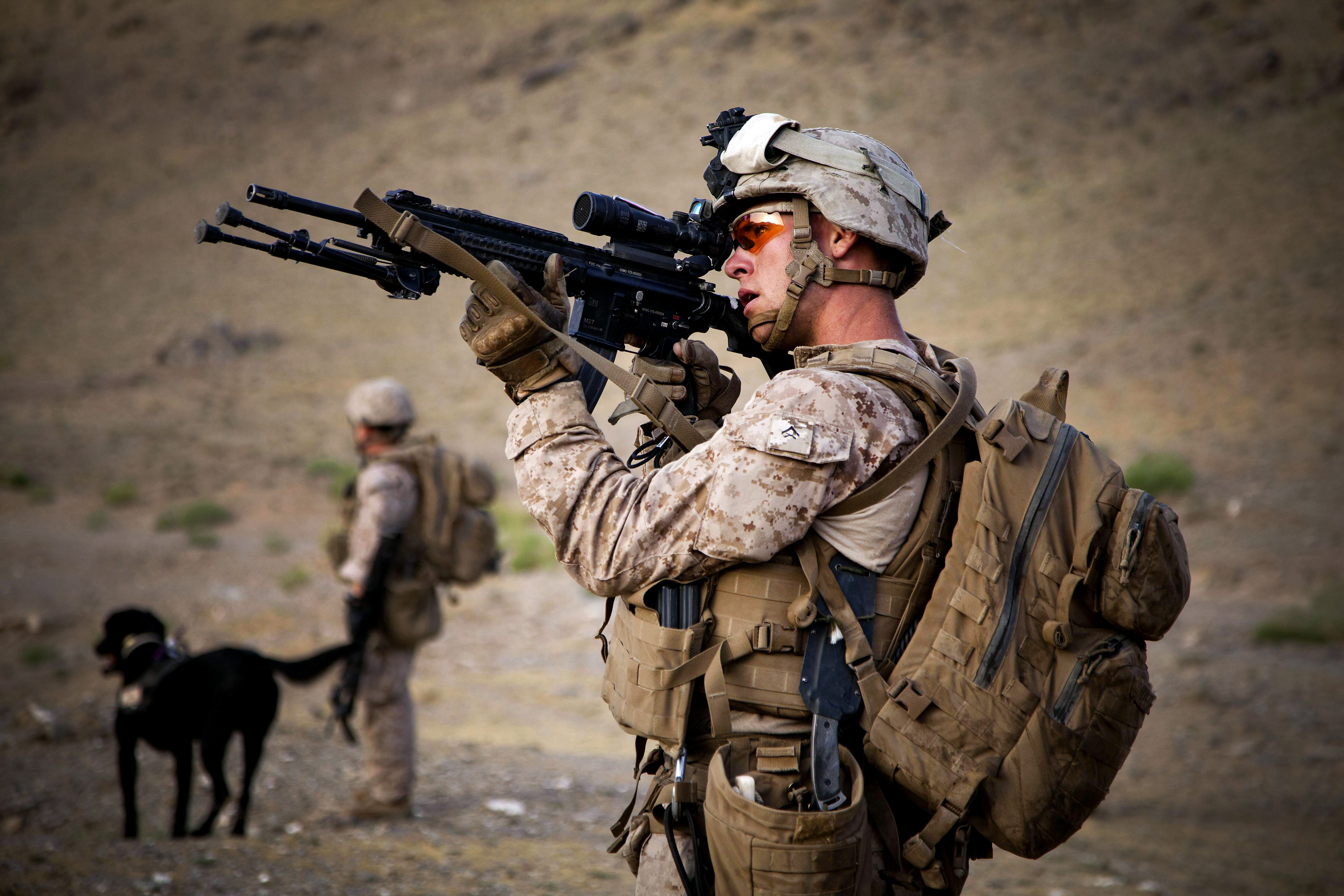 Cpl. Joseph Gravers with Fox Company, 2nd Battalion, 8th Marines (2/8), Regimental Combat Team 7, scans the area during Operation Nightmare in Nowzad, Afghanistan, June 6, 2013. Operation Nightmare was a clearing operation led by Afghan National Security Forces and supported by the Marines of 2/8. (U.S. Marine Corps photo by Kowshon Ye/Released)